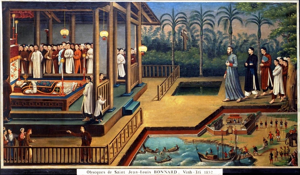 The martyrdom of Jean-Louis Bonnard, also known as Saint Bonnard Hương, on May 1, 1852 in Nam Định.